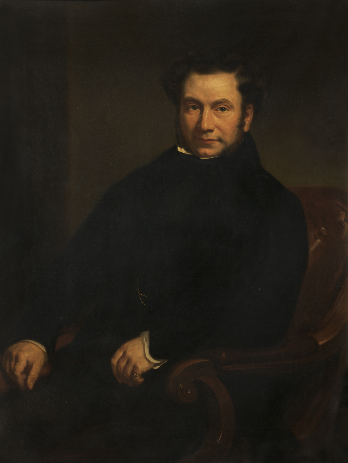 Photograph of a portrait of Benjamin Hick, engineer